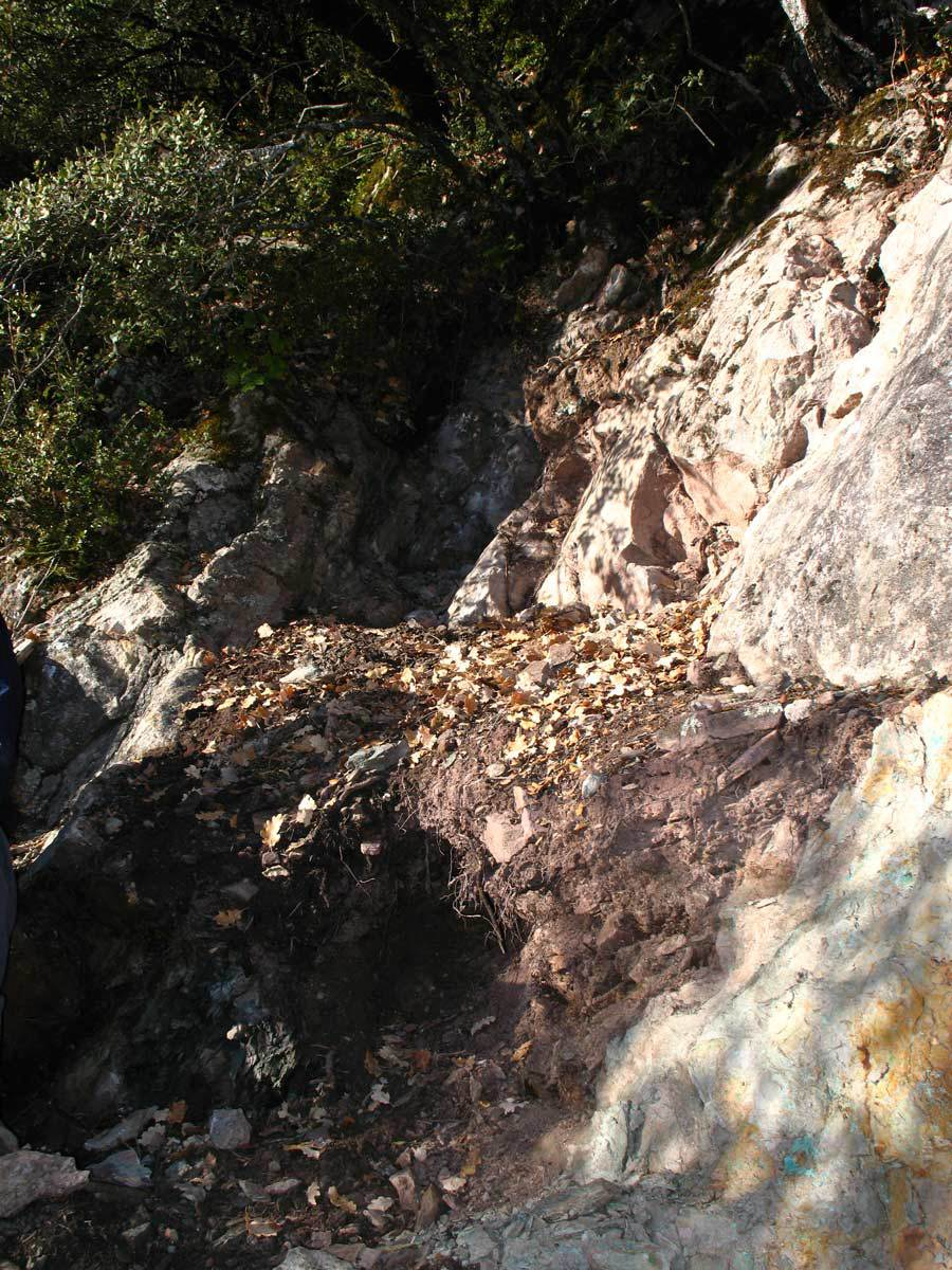 This is one of the mineralized outcrops in the Mina Eureka